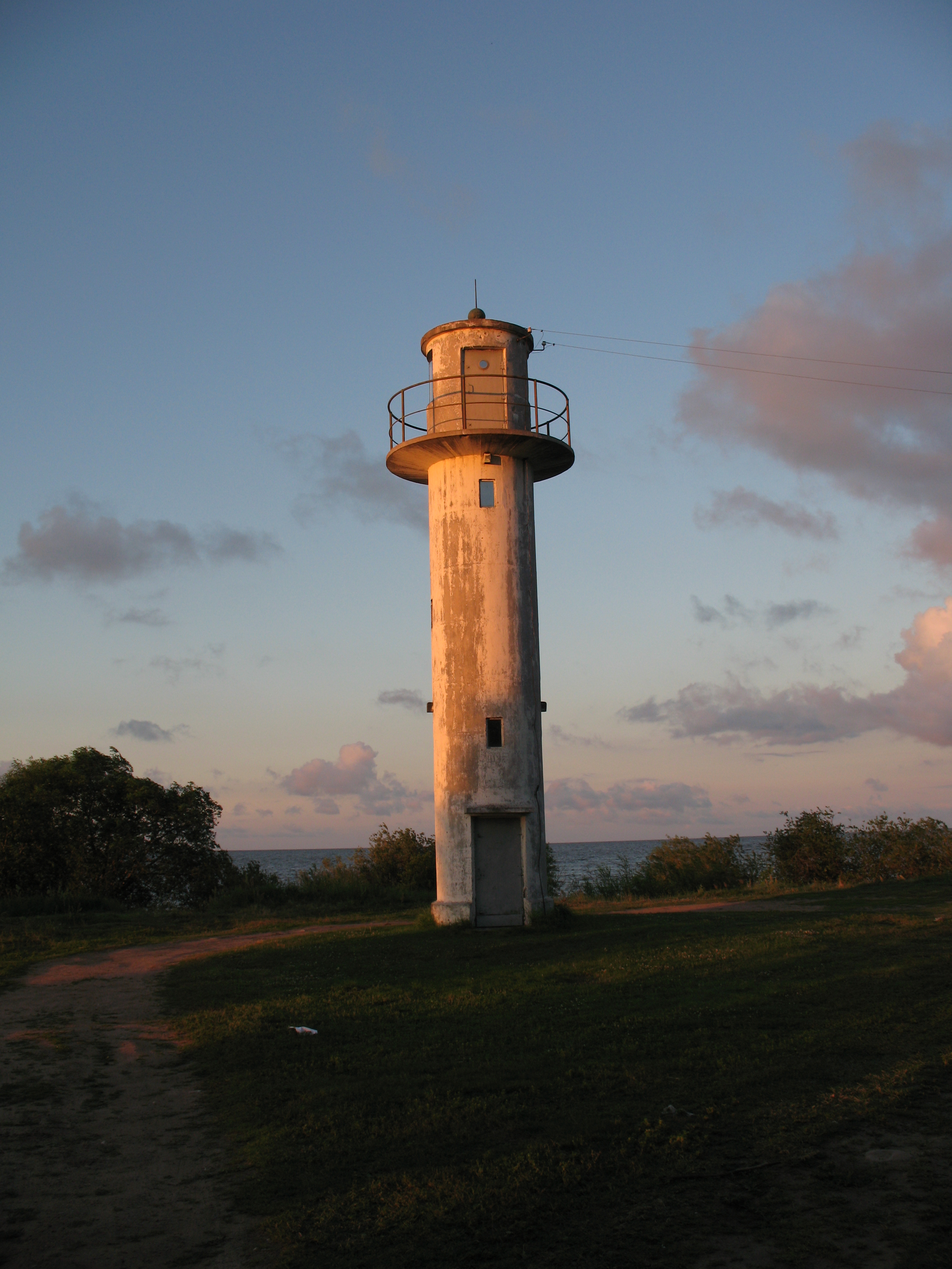 Nina lighthouse. Located in Nina village, Alatskivi parish, Estonia. Built in 1936.